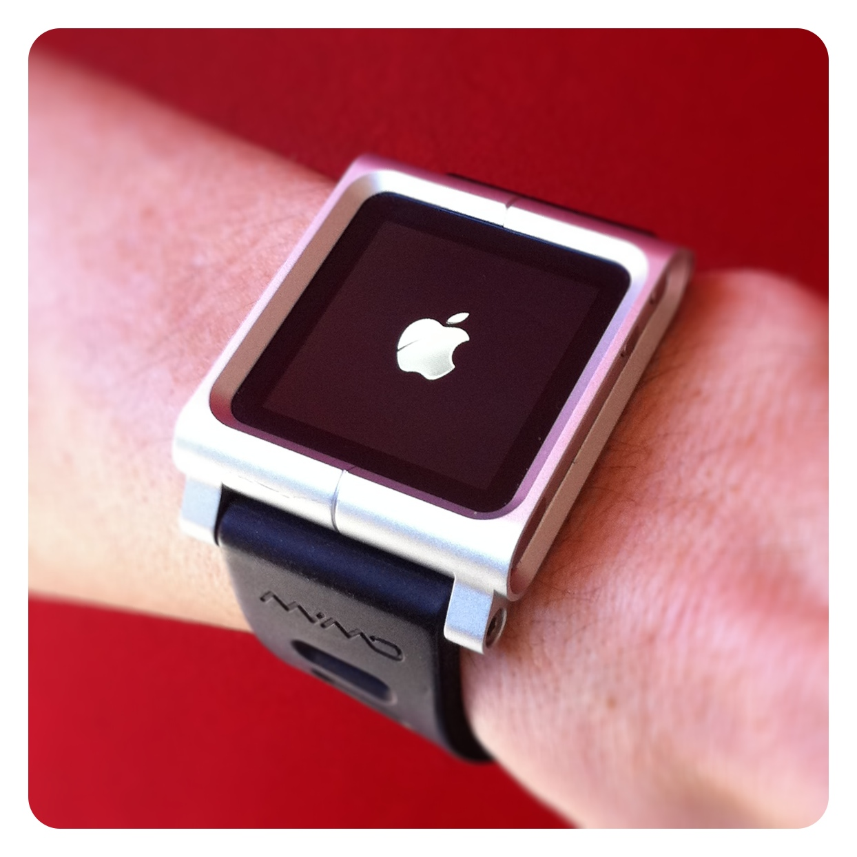 Earlier this year I backed a Kickstarter project to create two beautifully machined watch housings for the new iPod Nano, called the LunaTik and TikTok. I haven't worn a wristwatch since I was 17, but the idea of a multi-touch color wrist computer/timepiece/Instagram photo gallery was too good to resist. Of course, such futuristic accessories aren't entirely without their drawbacks; if you haven't used the Nano for 36 hours or so it goes into a deep sleep to conserve battery power, which results in a brief boot-up delay the next time you turn it back on. I find this somehow charming. Yet another quirk of modern techno-life which I suspect Douglas Adams would have greatly appreciated.